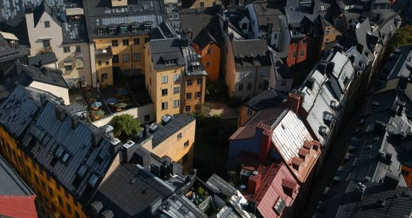 Part of Old Town from the top of the german church. Foto by Svante Björkum